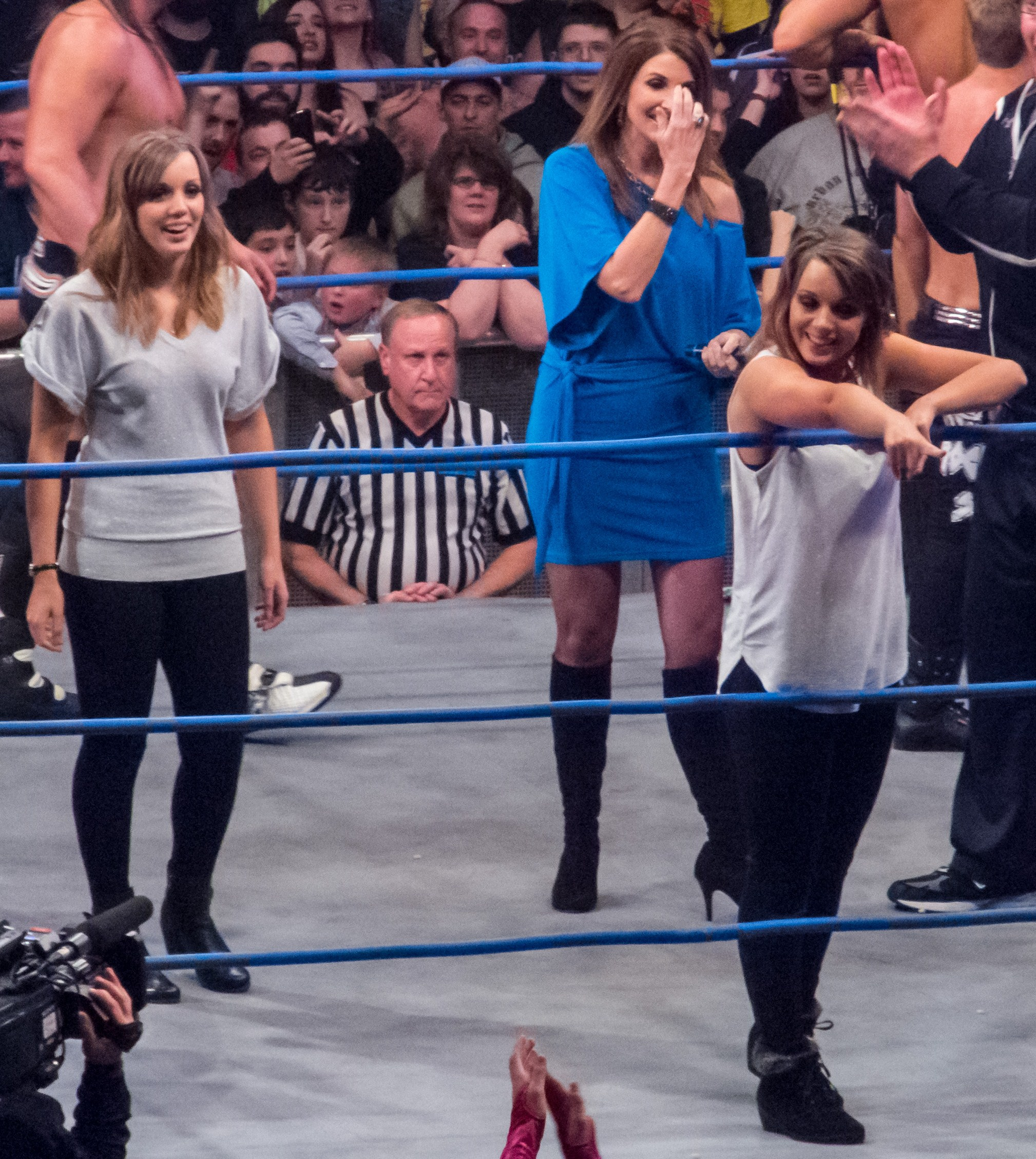 The Blossom Twins with Dixie Carter (center) at the Impact! TV Tapings in Wembley, England on January 26, 2013.